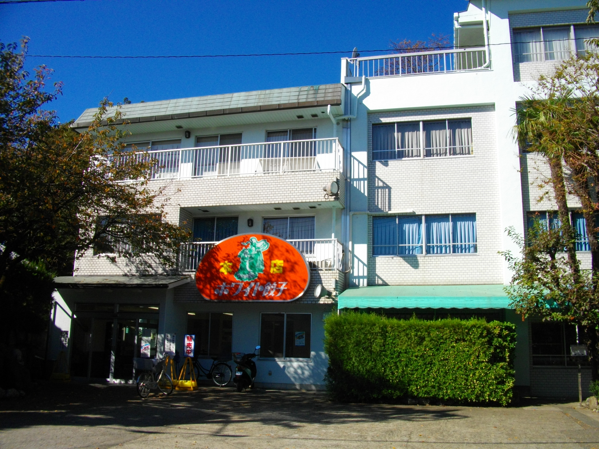 White Gyouza Head Shop